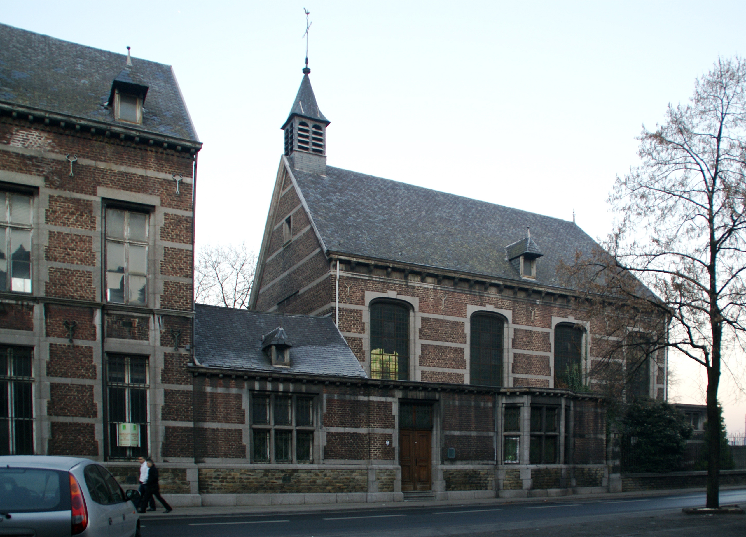 Chapel from the former hospital de Bavaria